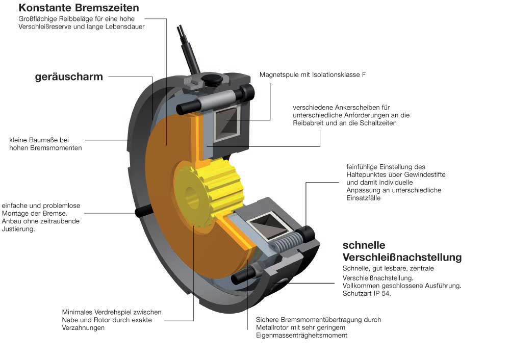 detailed safety brake